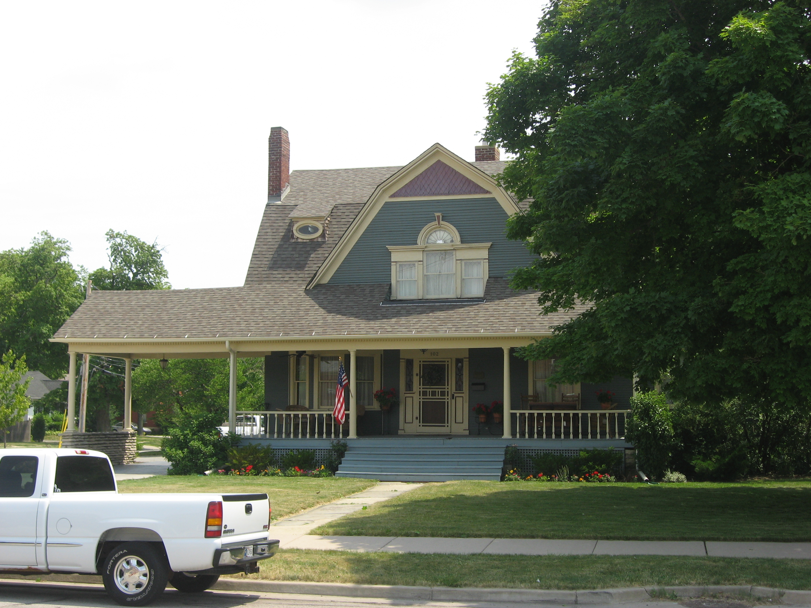 Front of the Walter Allman House, located at 102 S. East Street in Crown Point, Indiana, United States. Built in 1902, it is listed on the National Register of Historic Places.